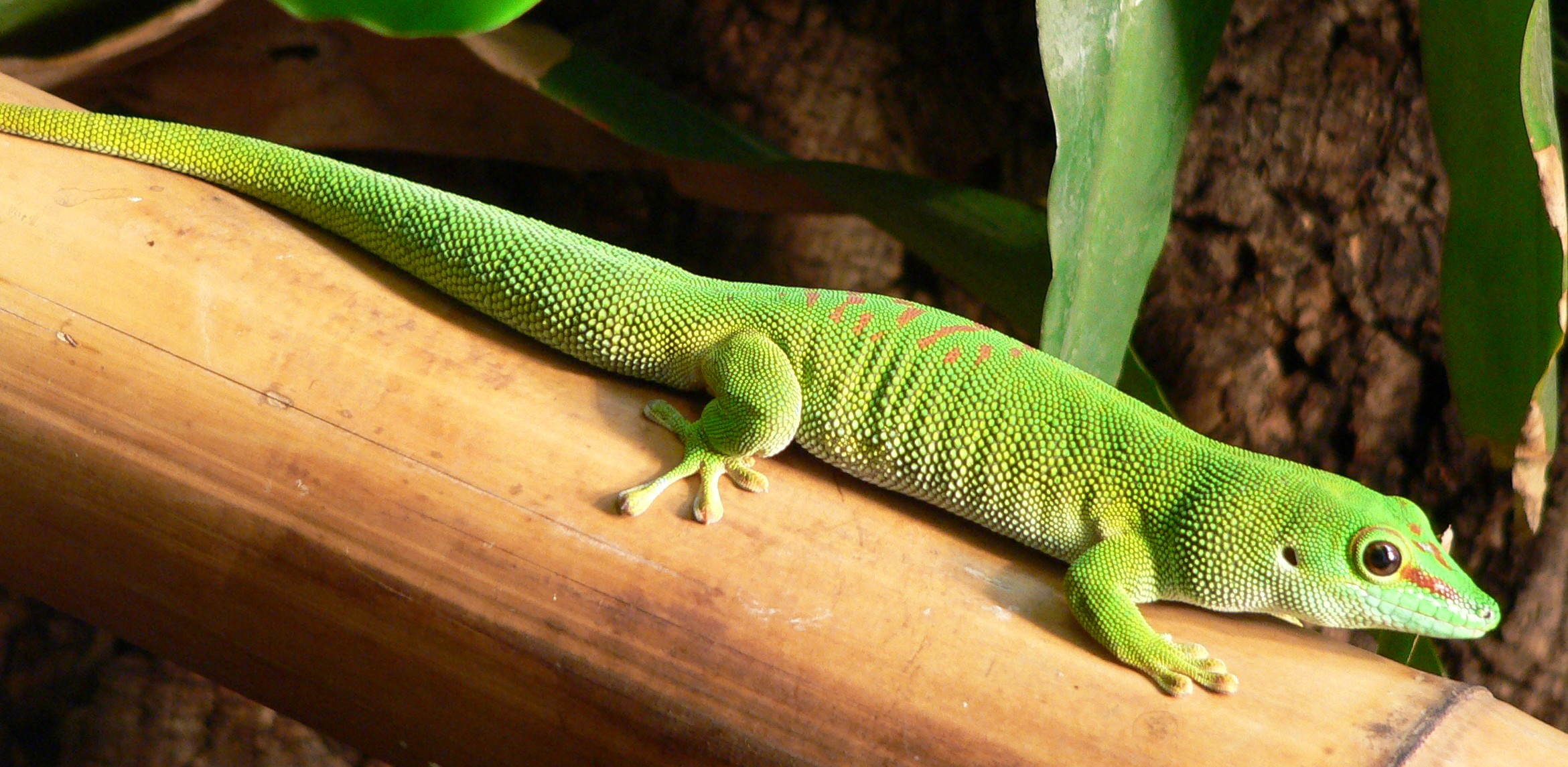 Nov2005 Photo taken by user Benutzer:BS Thurner Hof